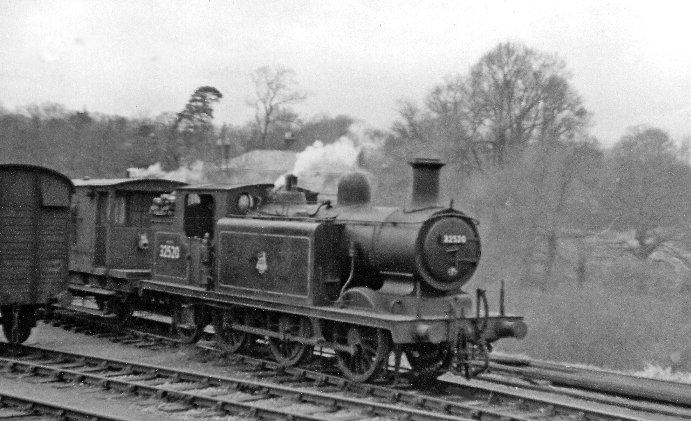 Ex-LB&SC 0-6-2T shunting at Midhurst. Seen on the Last Day (5/2/55) of the Petersfield - Pulborough passenger service, ex-LB&SC R. Billinton class E4 0-6-2T No. 32520 (built 6/1901 as No. 520 'Westbourne', withdrawn 1/57) is shunting at Midhurst, goods traffic continuing from the Pulborough direction to Midhurst until 10/64.